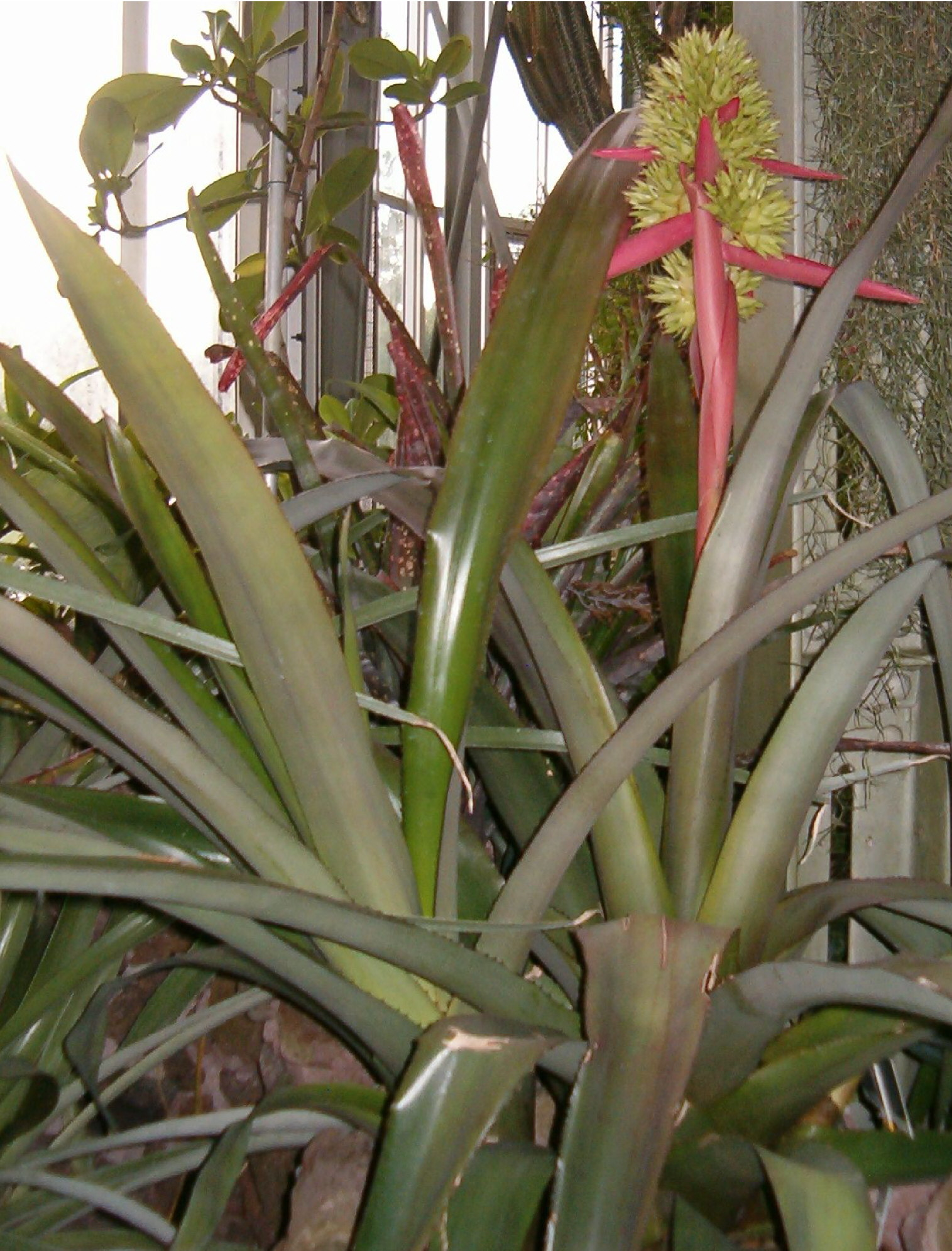 Habitus and Inflorescence Location: Botanical Gardens Berlin